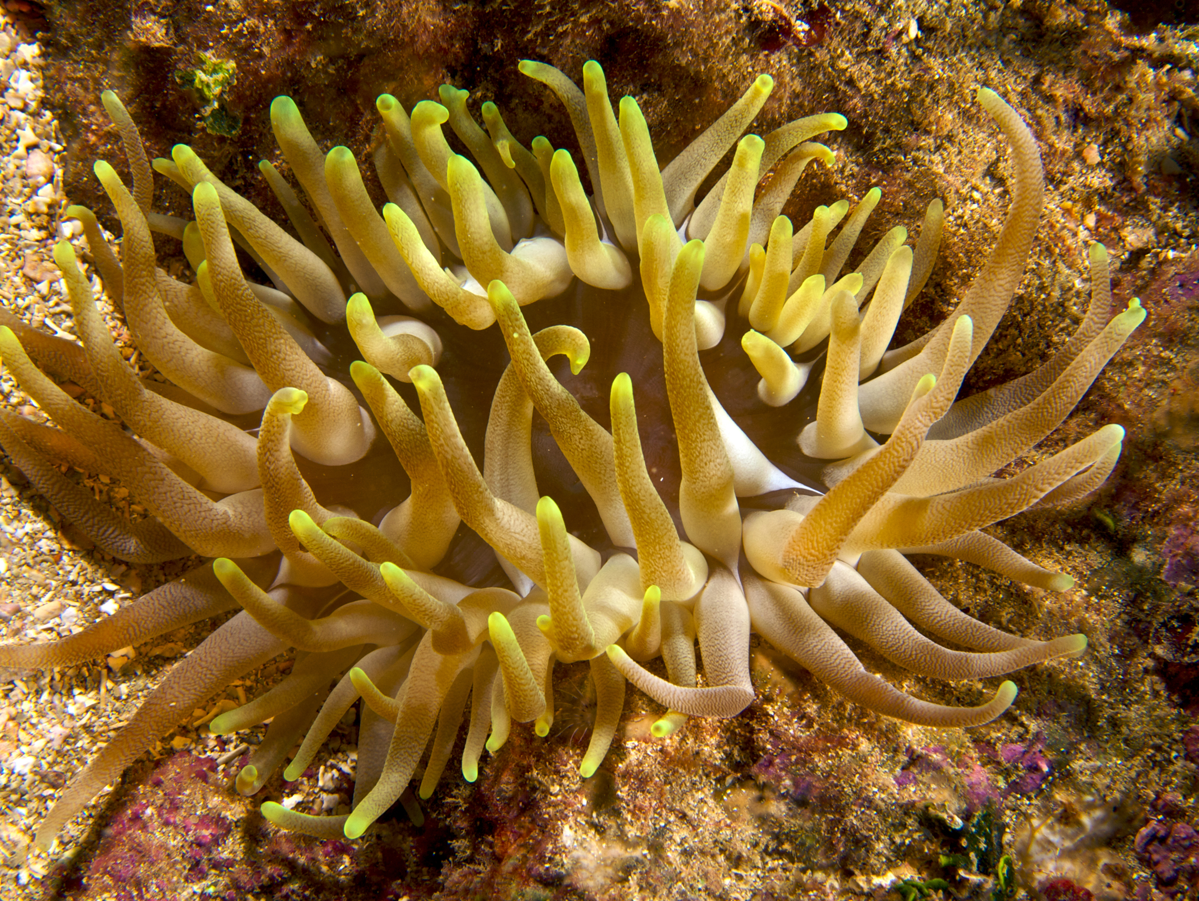 Condylactis gigantea (Giant Anemone-yellow tip variation)